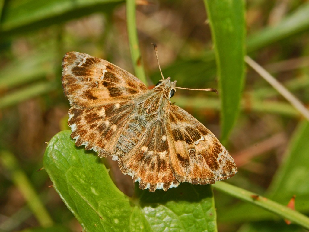 Hesperiidae - Carcharodus alceae